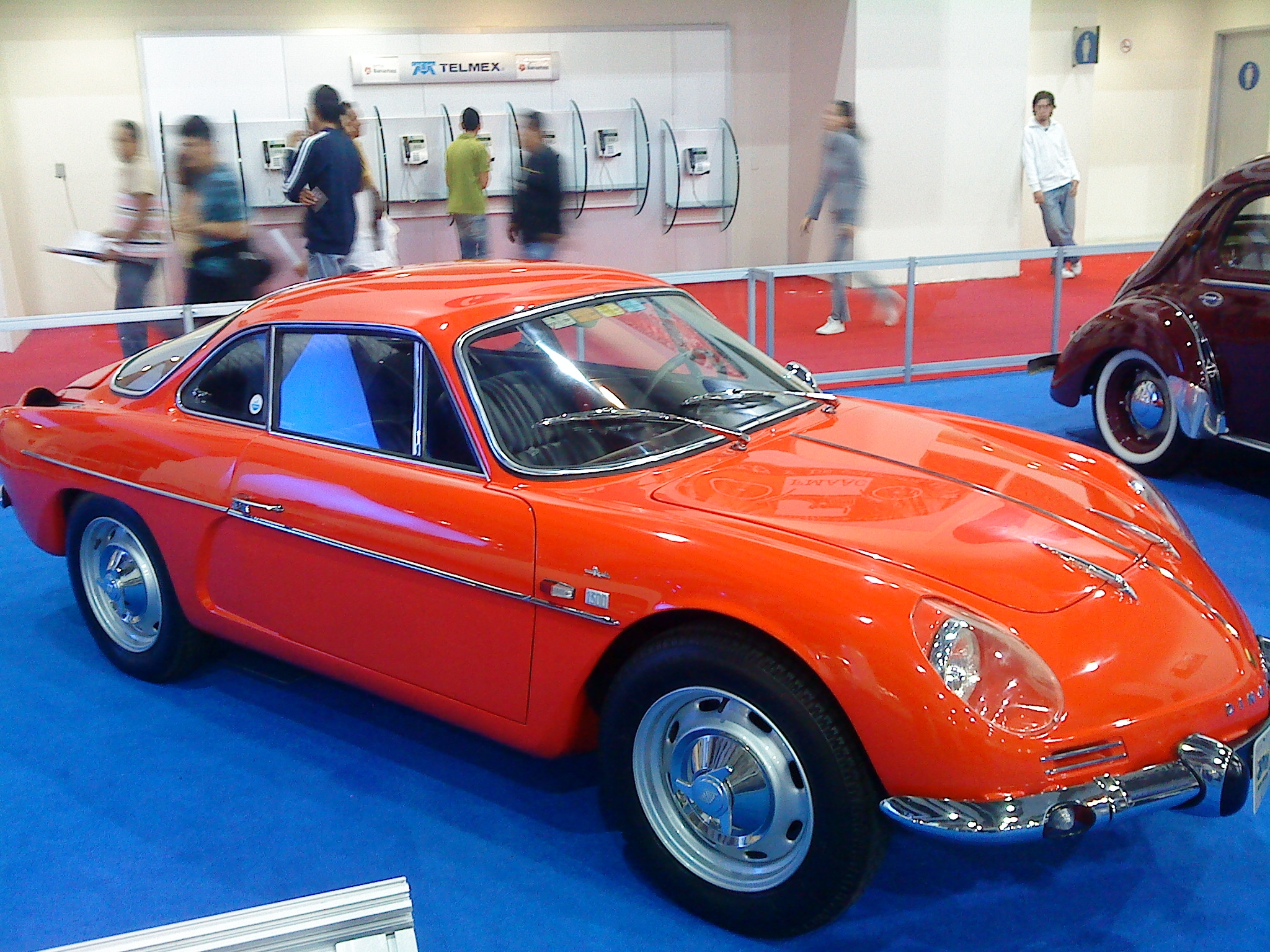 Renault Dinalpin at the 2008 SIAM.